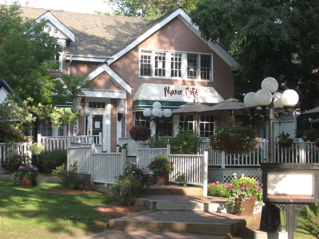 Manor Cafe in Westmount, Edmonton.